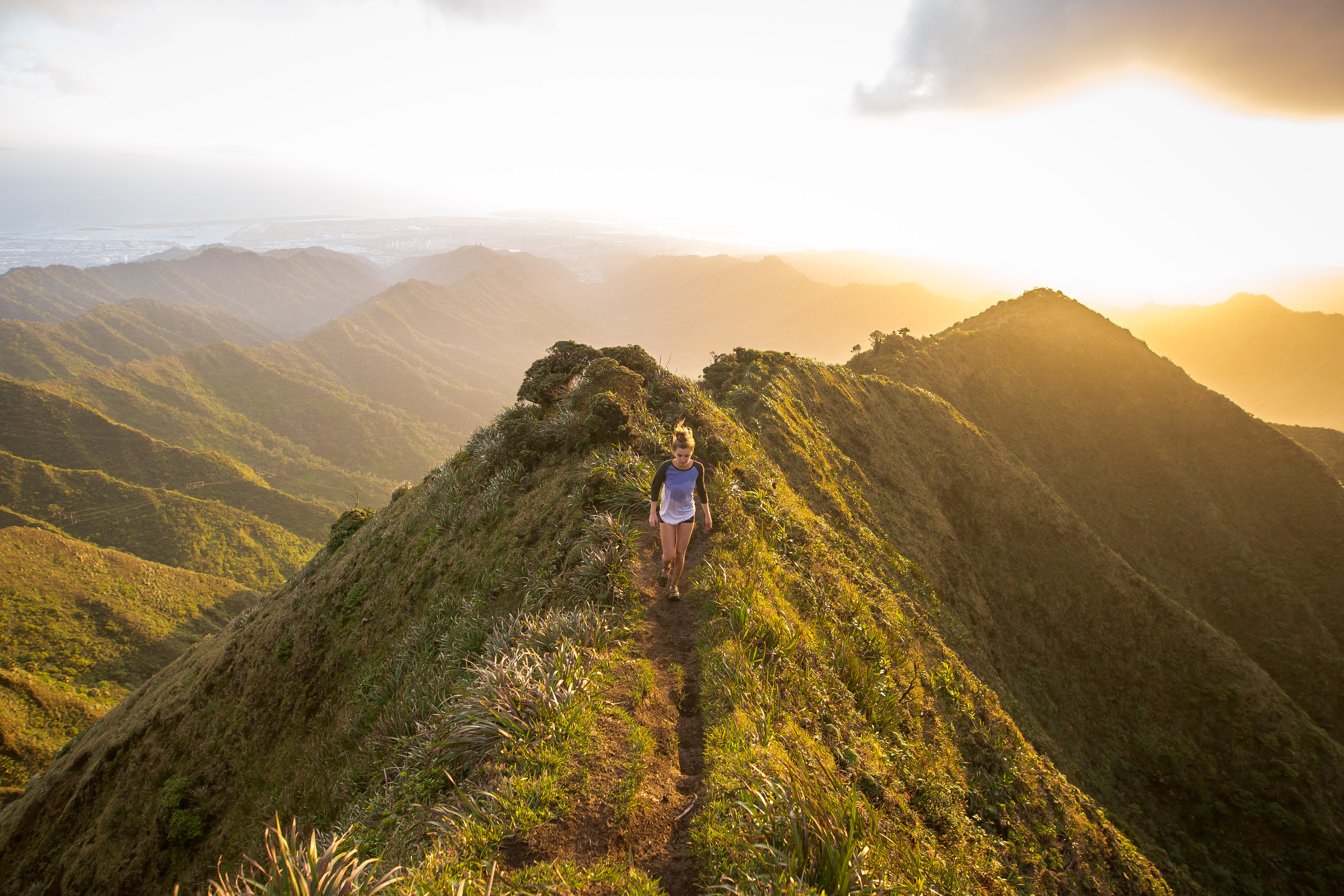 Haiku Stairs, Kaneohe, United States